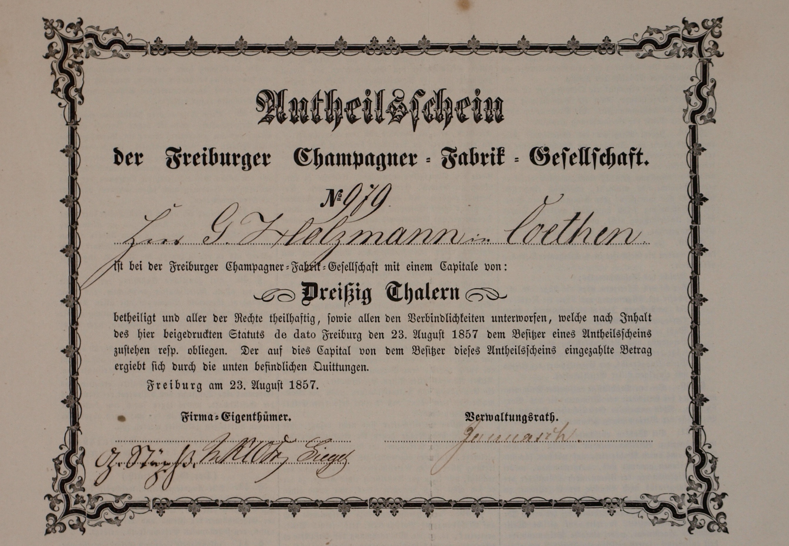 Stock certificate of the Freiburger Champagner-Fabrik-Gesellschaft, issued 23. August 1857